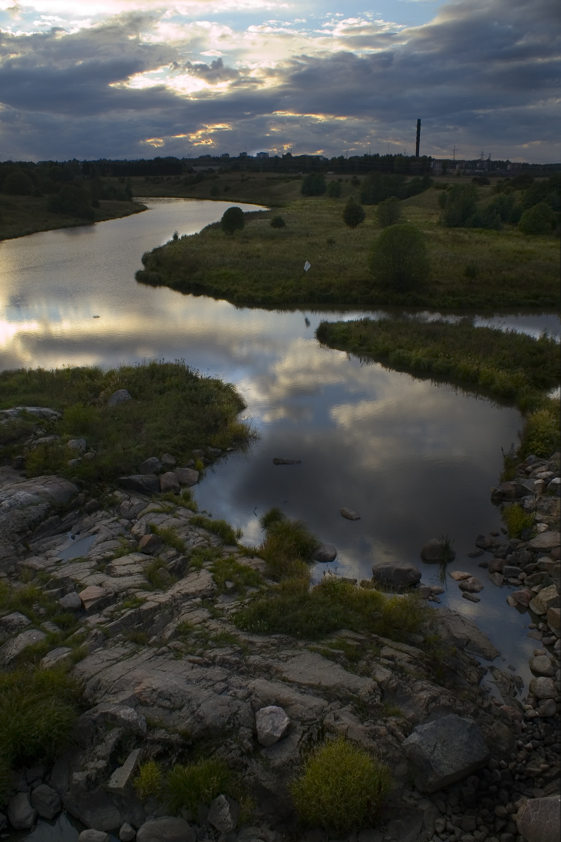 Aura River seen further from central Turku